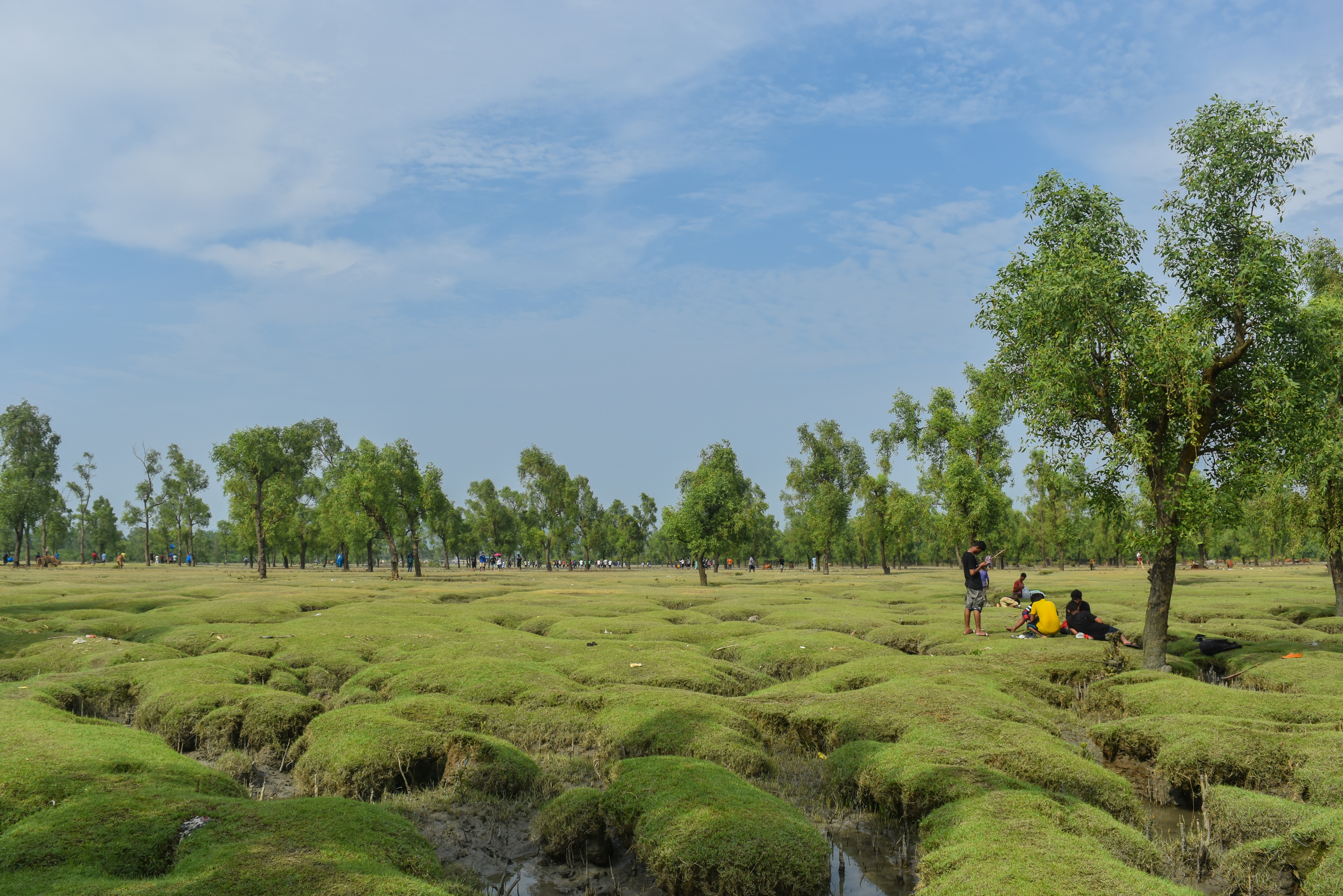 Guliakhali Sea Beach is located in the river estuary of Sitakundu upazilla of Chittagong district of Bangladesh.